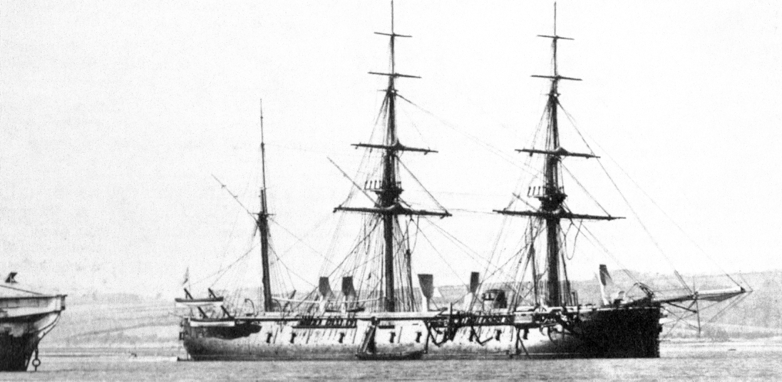 British broadside ironclad HMS Royal Oak with her funnel lowered and windsails rigged for ventilation, sometime prior to the 1866 addition of yards to her mizzen